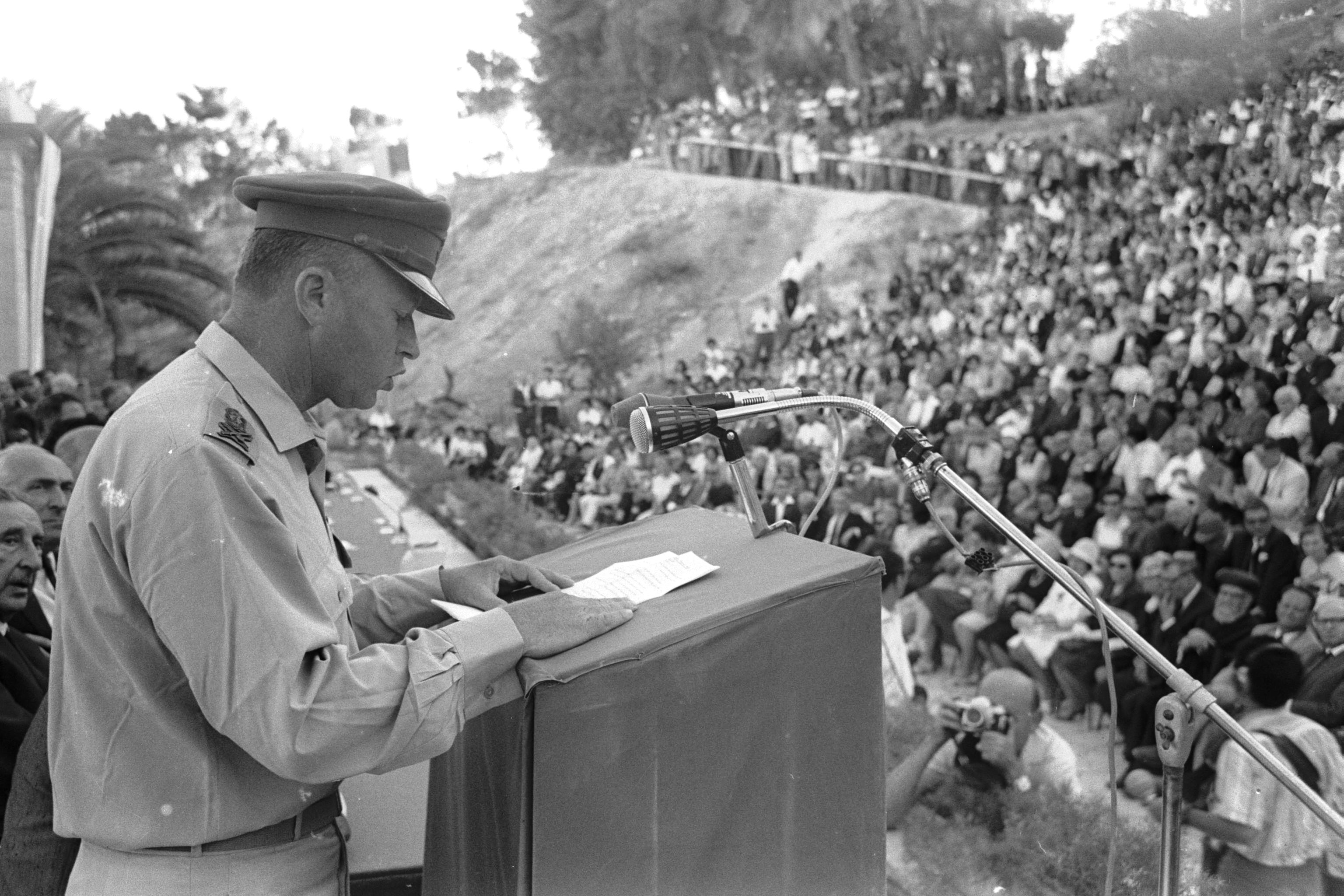 Chief of staff Yitzhak Rabin speaking at the mount scopus amphitheatre after receiving an honorary doctorate from the Hebrew University at the end of the Six Day War.